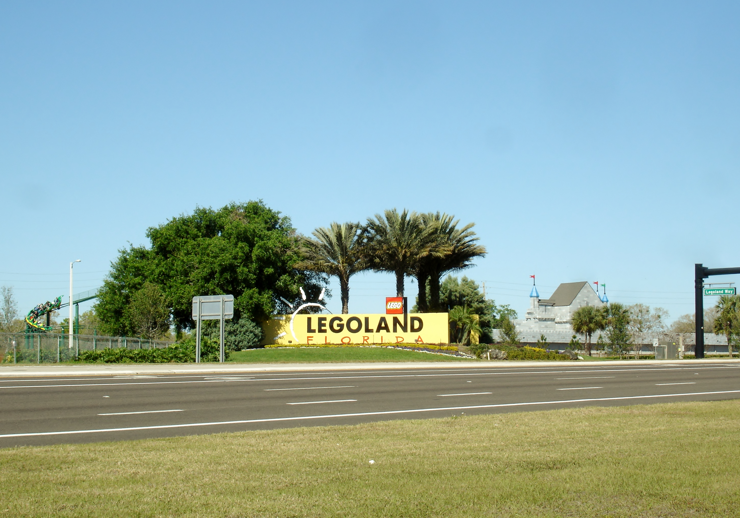 Legoland Florida's main sign, at intersection of Cypress Gardens Blvd. & Legoland Way.